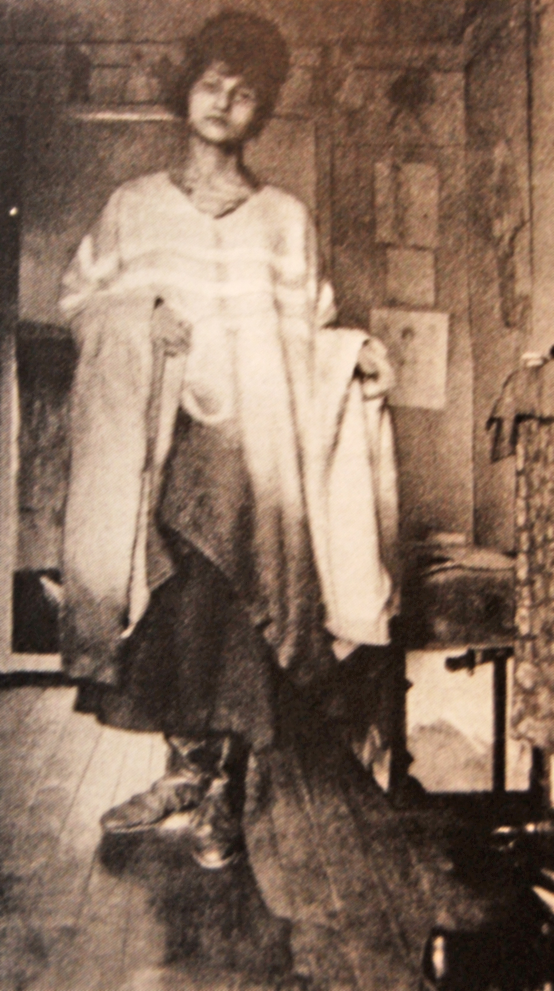 Jeanne Hébuterne in the atelier of Amedeo Modigliani in Rue grand Chaumiere, circa 1919.